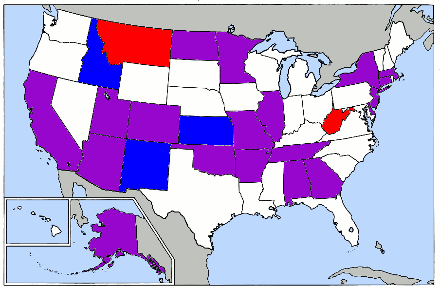 Map of the United States showing the states holding caucus and primary elections on Super Duper Tuesday of the 2008 U.S. presidential primary cycle. Key: Purple: states holding elections for both parties (19) Blue: Democratic Party (United States)en-only elections (3) Red: Republican Party (United States)en-only elections (2) This raster graphics image was created with GIMP. File:Image-Super Duper Tuesday 2008.svg is a vector version of this file. It should be used in place of this raster image when superior. File:Super Duper Tuesday 2008.png File:Image-Super Duper Tuesday 2008.svg For more information about vector graphics, read about Commons transition to SVG. There is also information about MediaWiki's support of SVG images.